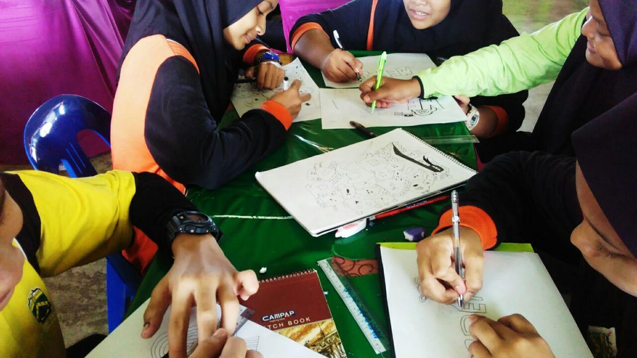 doodle